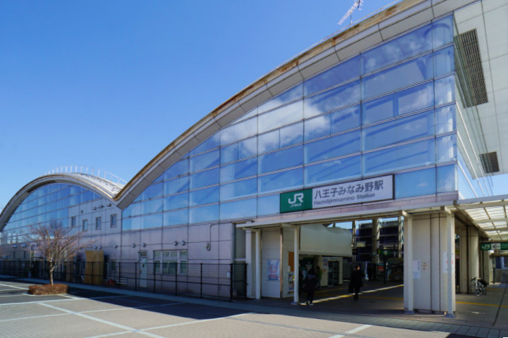 The west entrance to Hachiojiminamino Station on the Yokohama Line in Tokyo, Japan